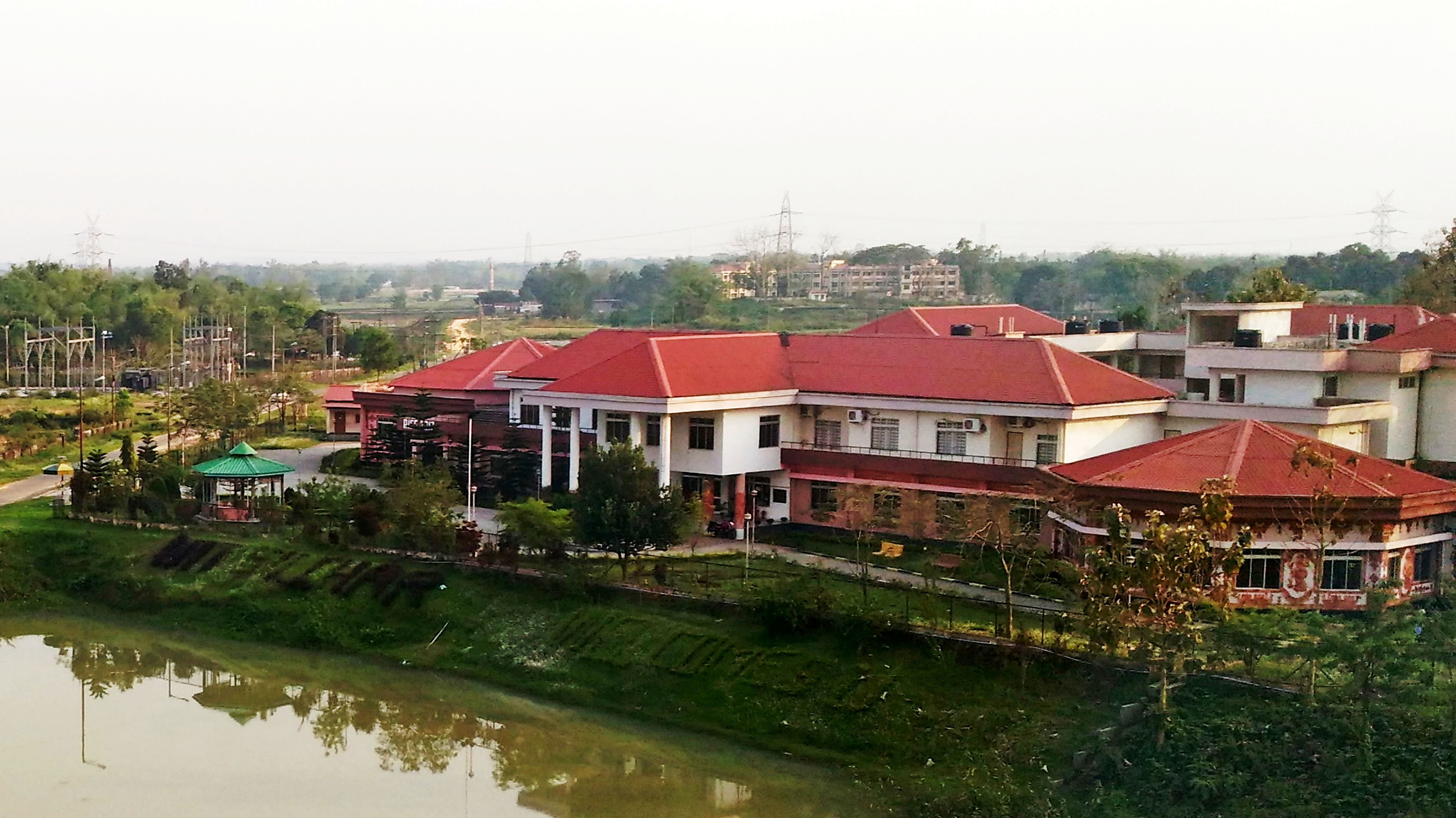 National Institute Of Technology Silchar is one of the 31 NITs of India and was established in 1967 as a Regional Engineering College in Assam.